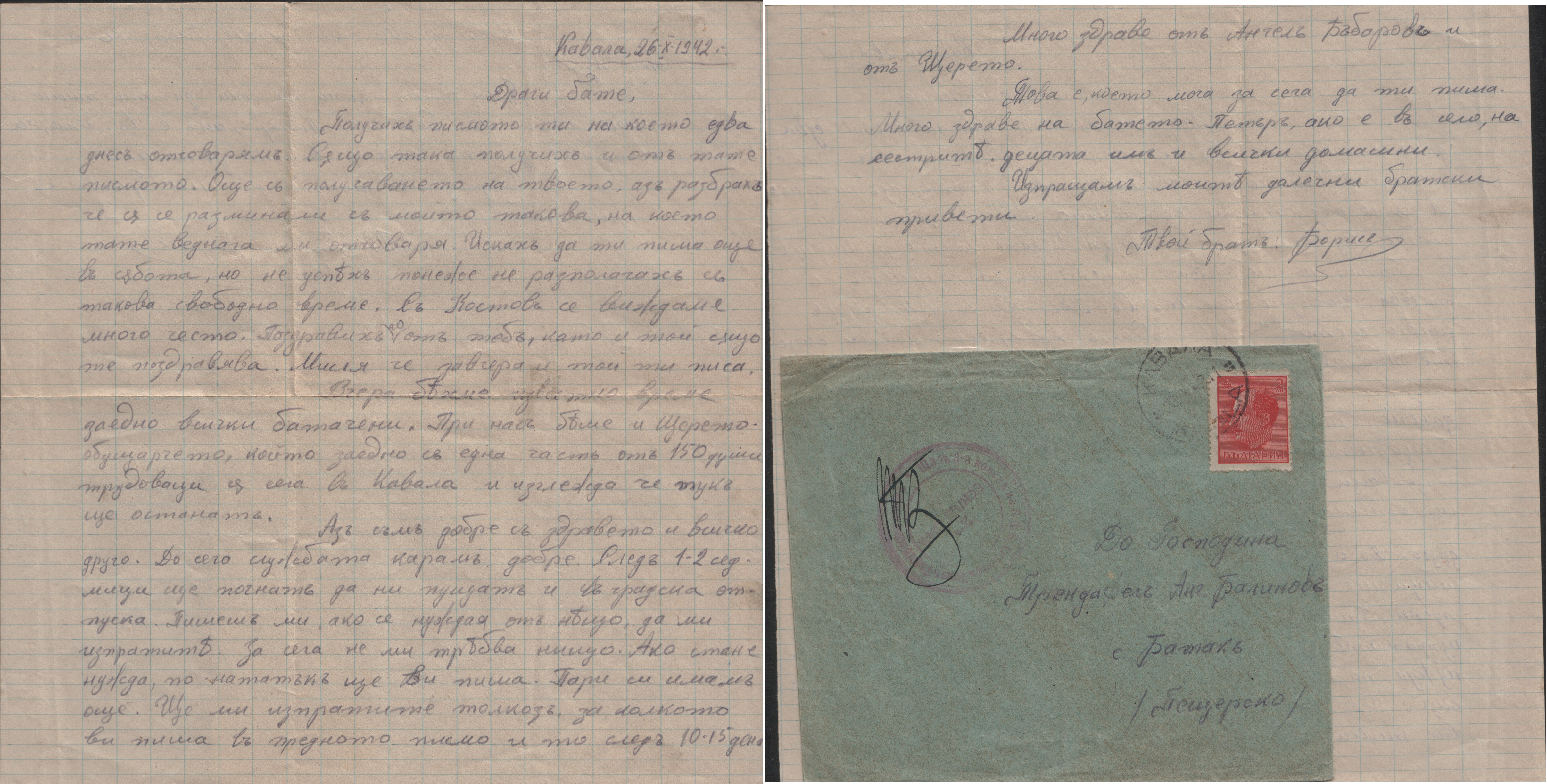 Letter from Boris Balinov to his brother Trendafil